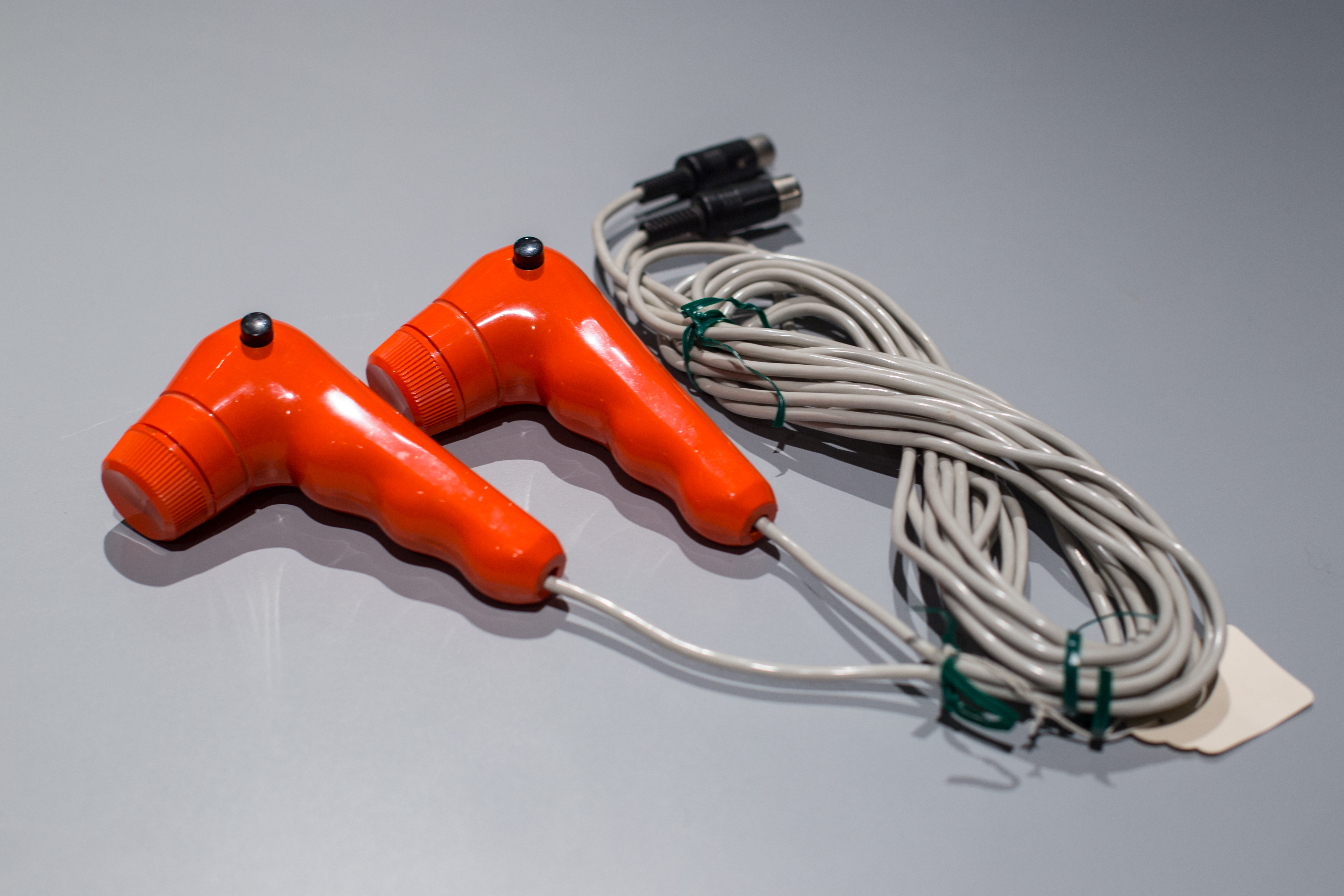 Salora Playmaster controllers